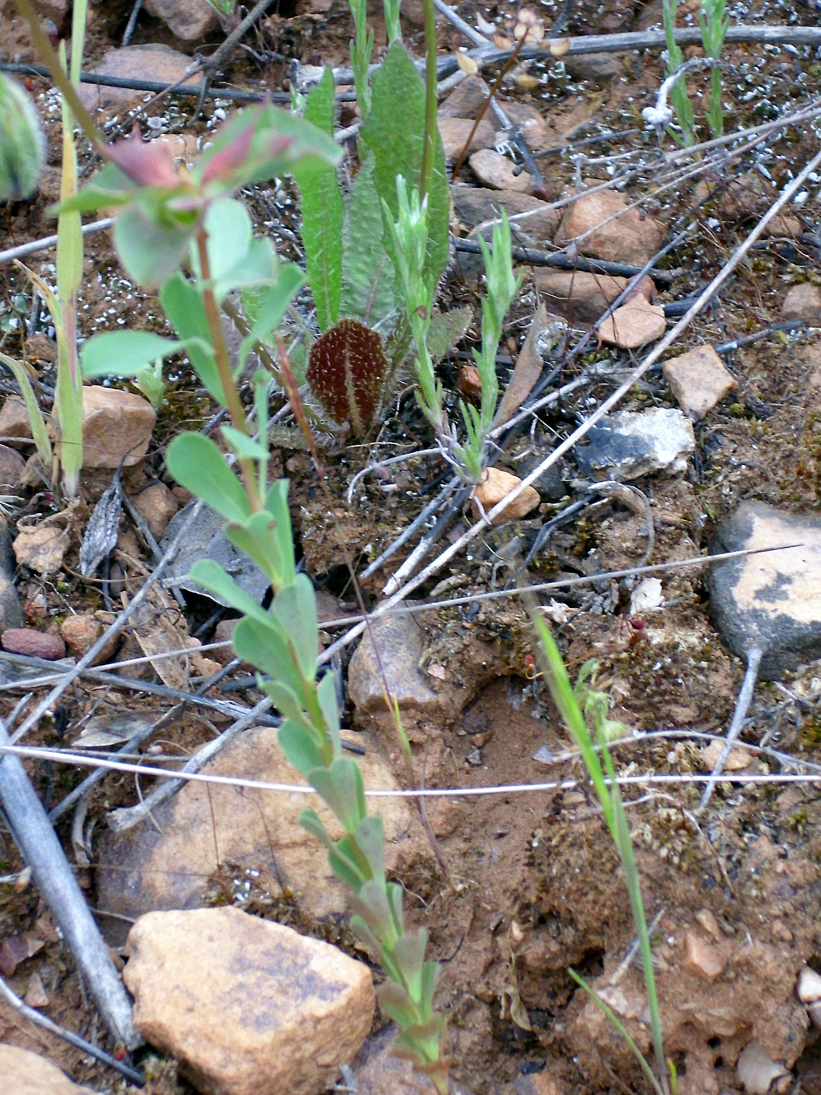 Euphorbia falcata subsp. rubra habit, Cañada de Calatrava, Campo de Calatrava, Spain